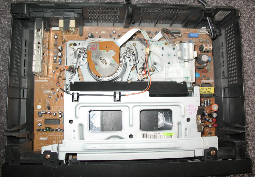 The interior of a modern VHS VCR showing the cassette, drum, and tape mechanism